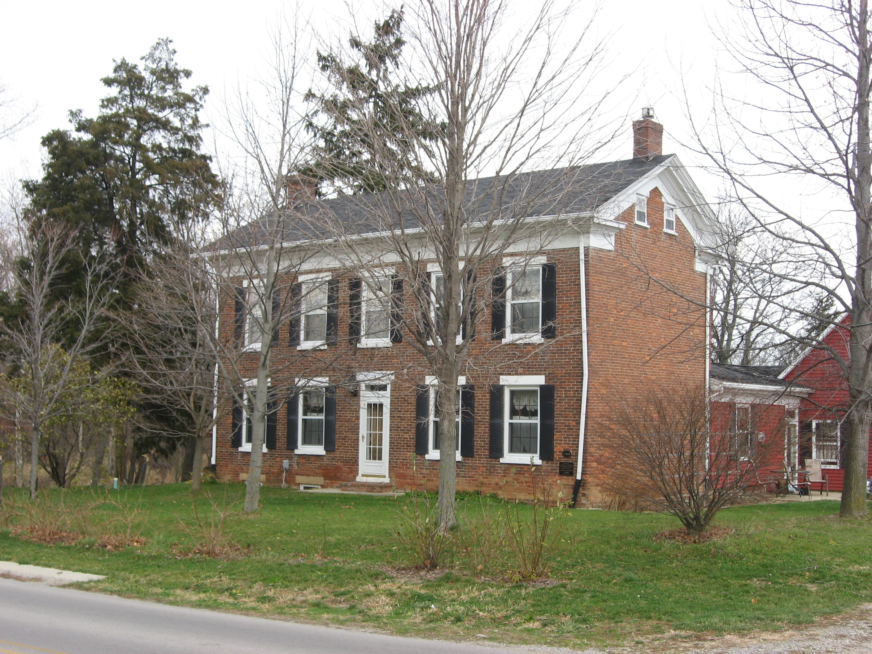 Front and southeastern side of the Lenhart Farmhouse, located at 6929 Piqua Road northeast of Decatur in Root Township, Adams County, Indiana, United States. Built in 1848, it is listed on the National Register of Historic Places.